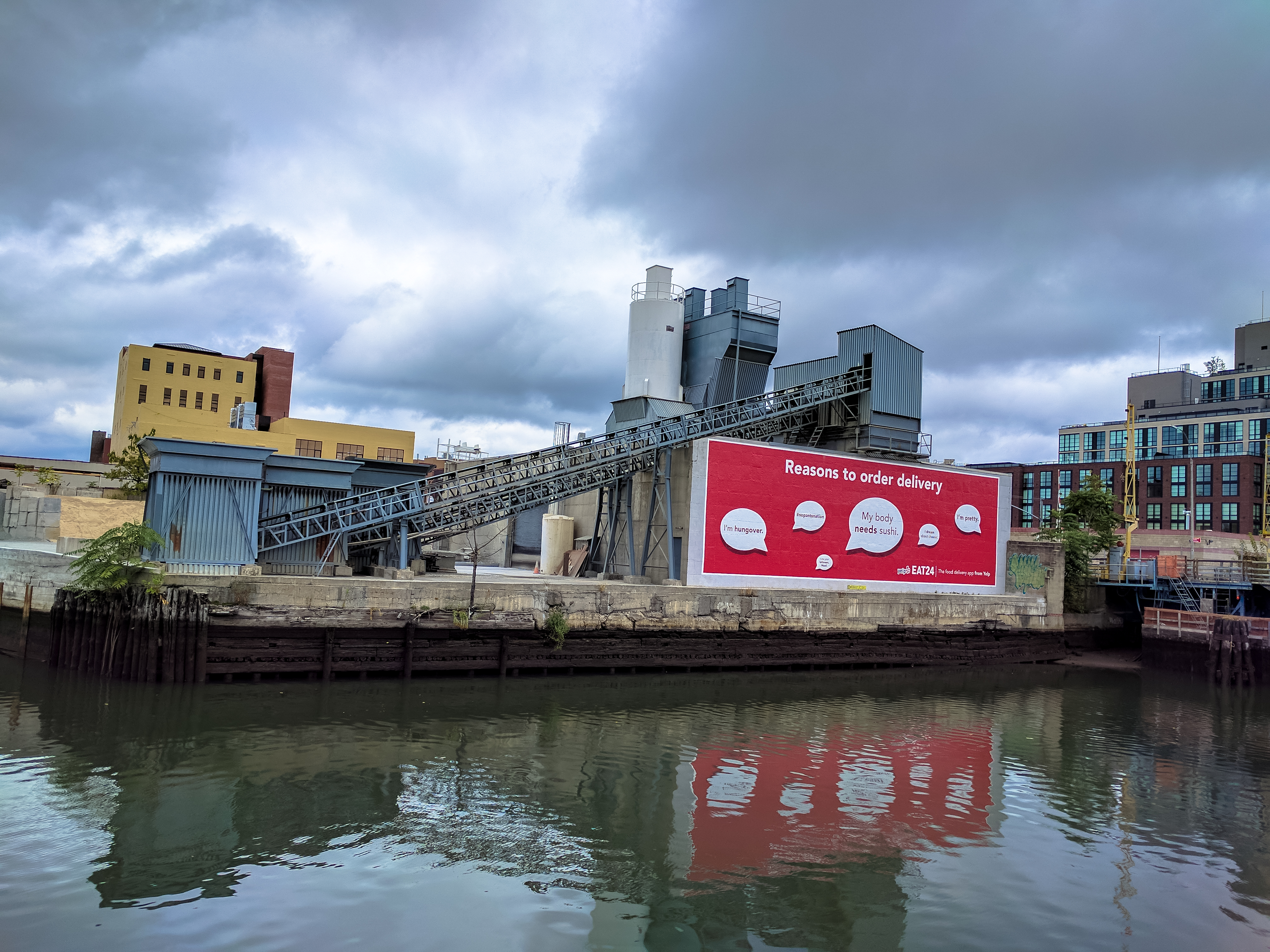 Site: Gowanus Canal Conservancy Salt Lot